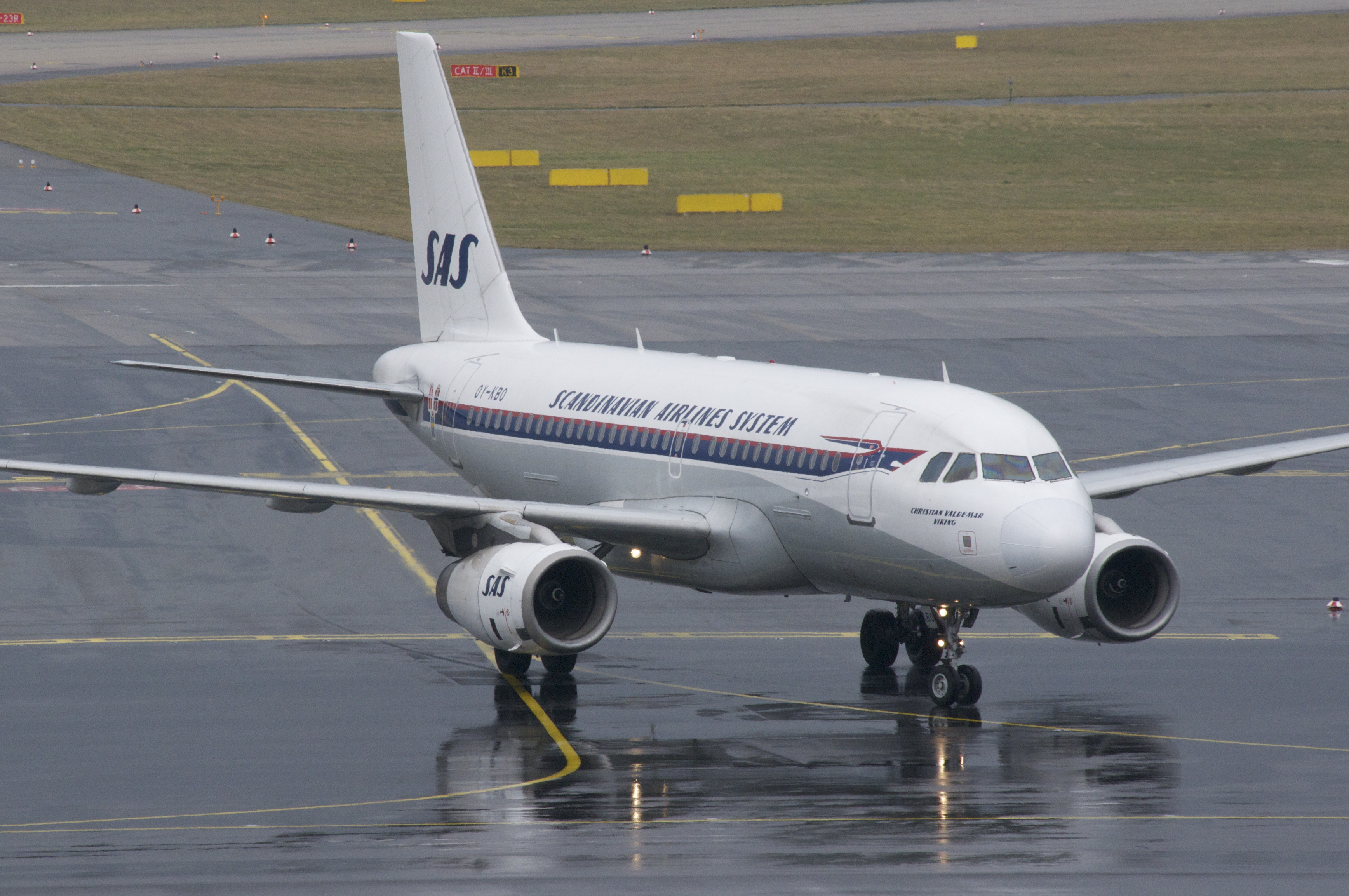 SK's Retrojet taxiing at a wet DUS... This A319, named 'Christian Valdemar Viking', took its first flight on July 27, 2006 and delivered to SK on August 8, 2006...(c/n 2850)